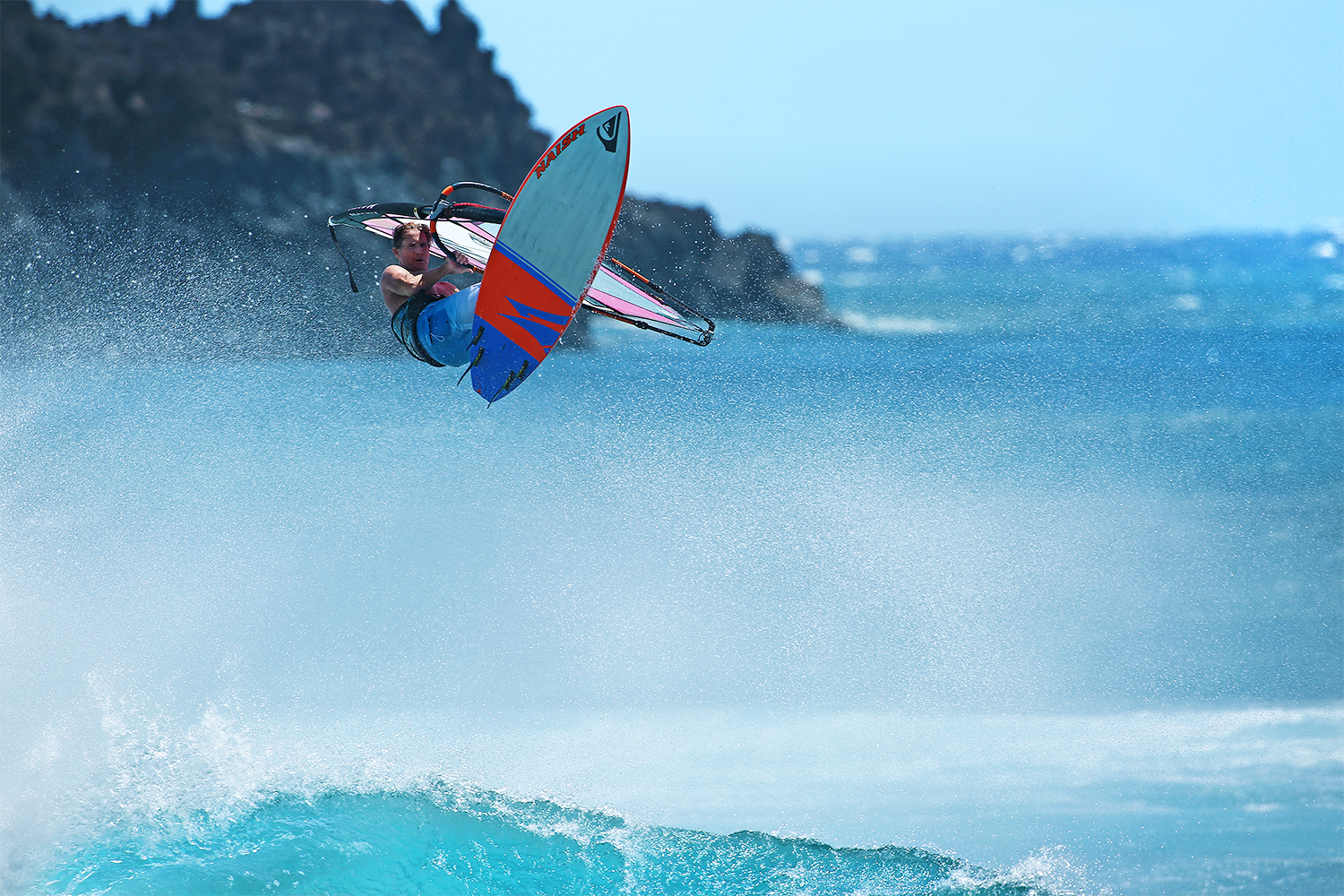 Wave Windsurfing, Aerial